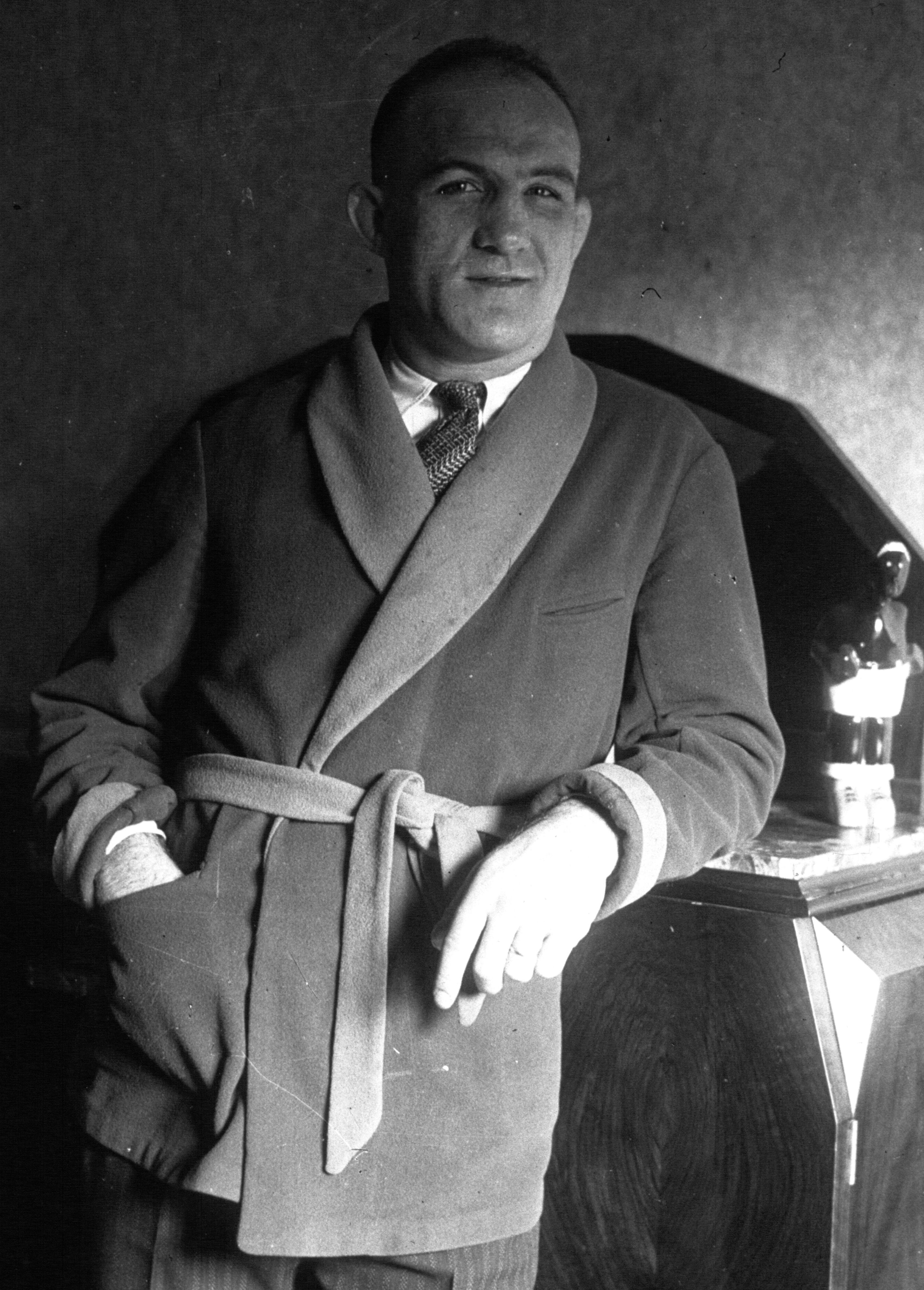 Marcel Thil in 1932